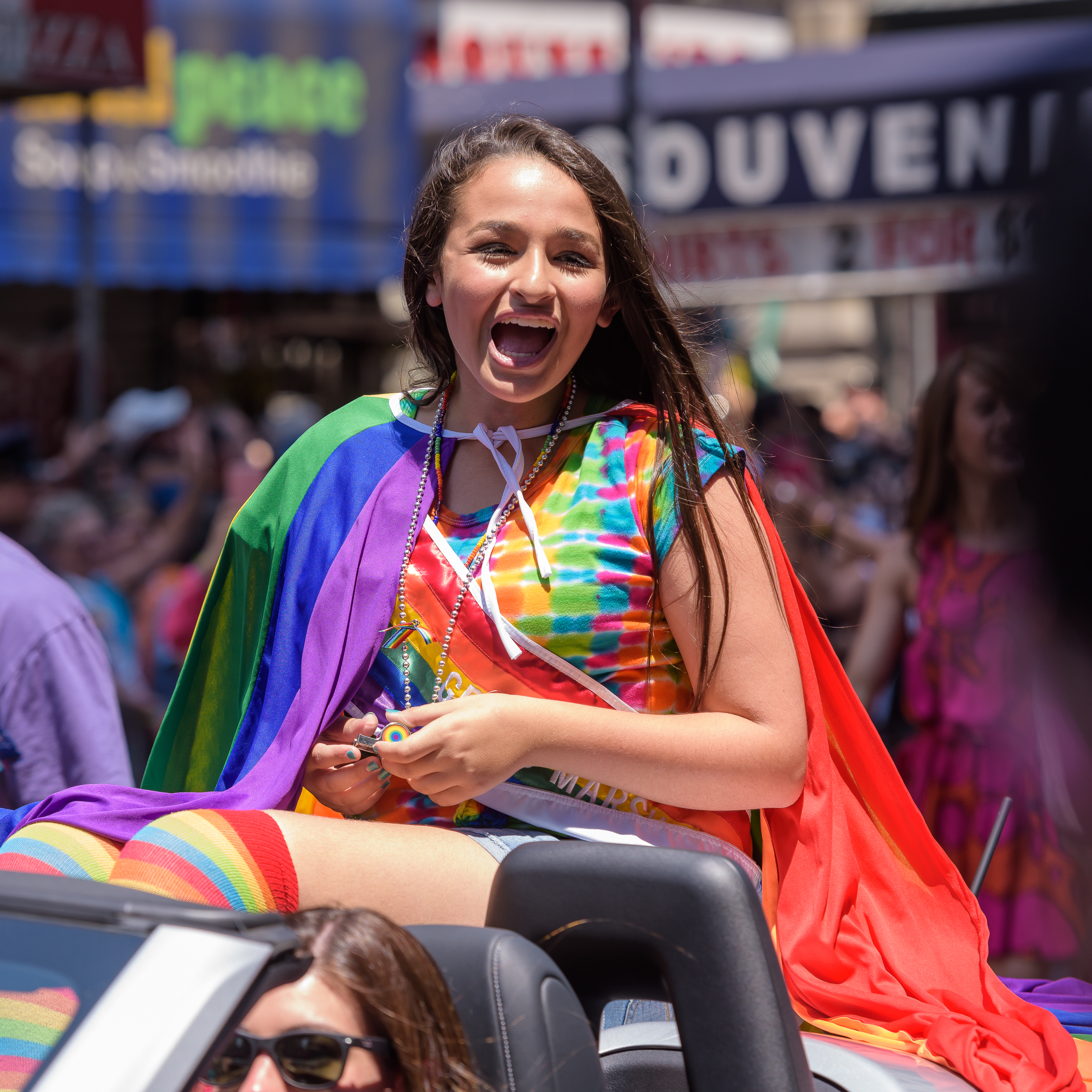 Jazz Jennings at NYC Pride Parade in 2016